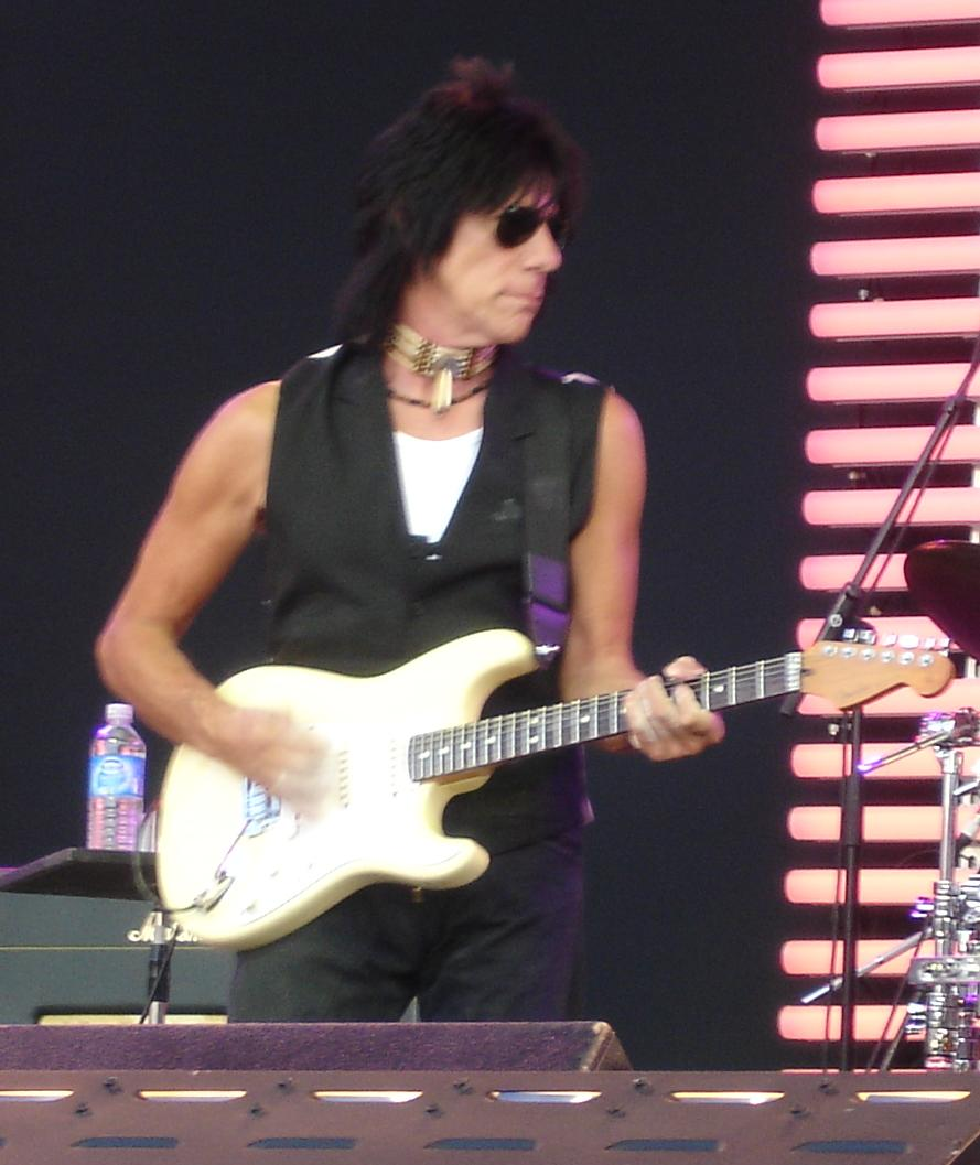 Jeff Beck performing at the Crossroads Guitar Festival 2007